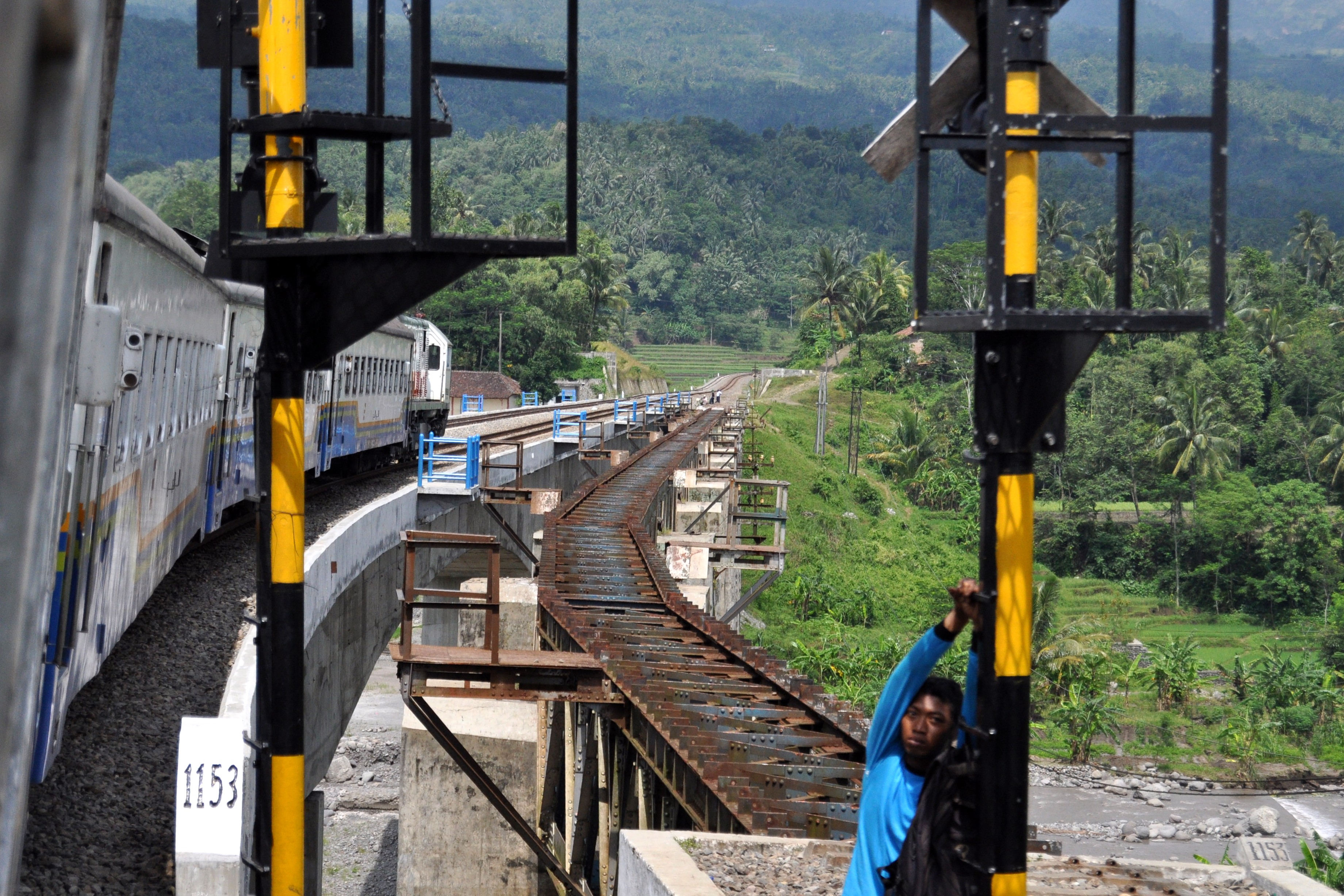 Sakalimolas train bridge near Bumiayu, Central Java